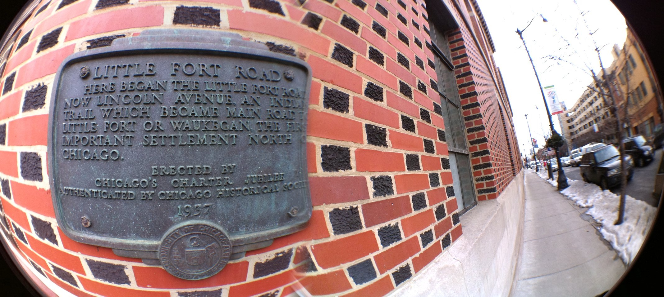 Little fort road Lincoln Halsted and Fullerton, Chicago